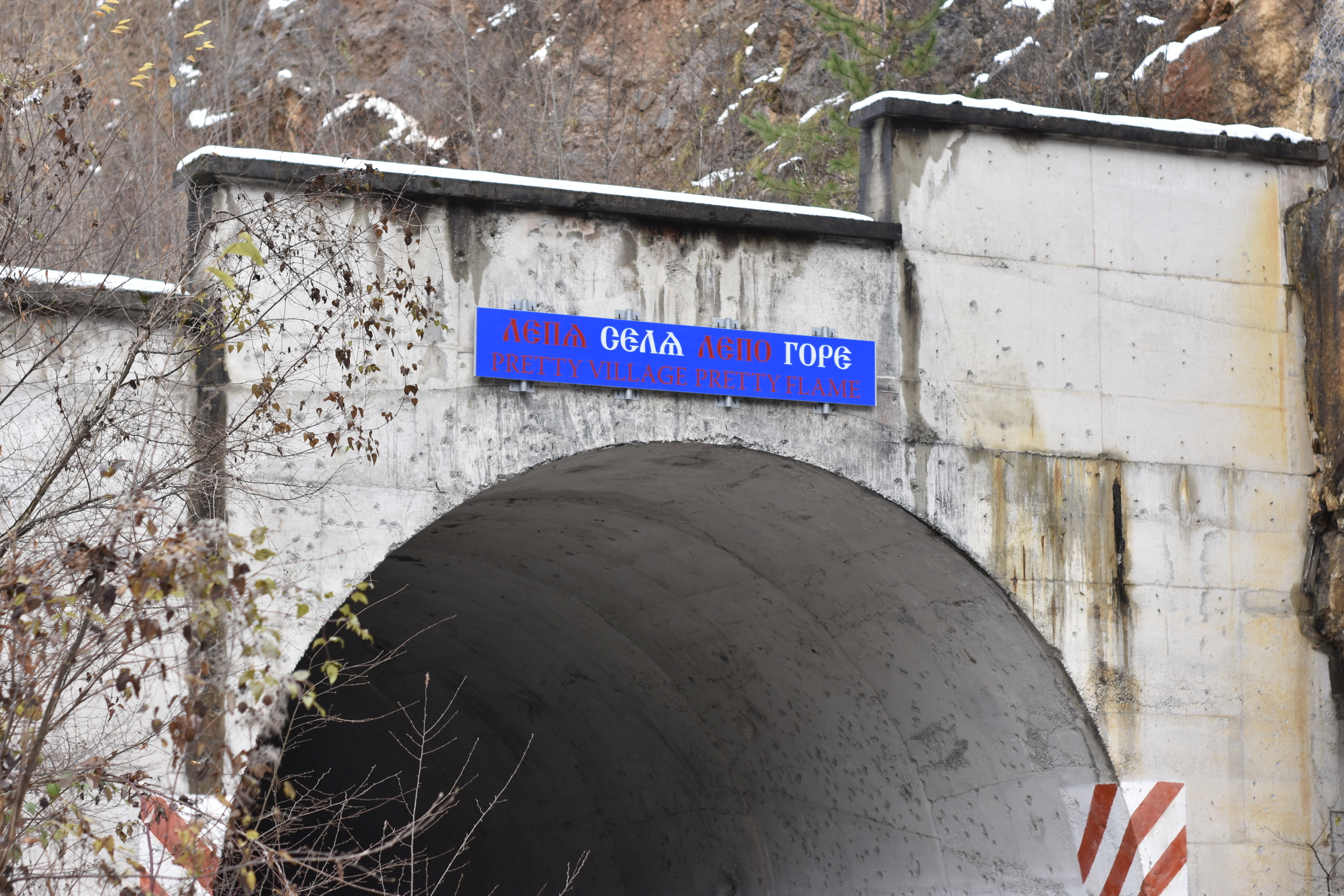 Meet Srpska 2018 - Photo-tour Višegrad